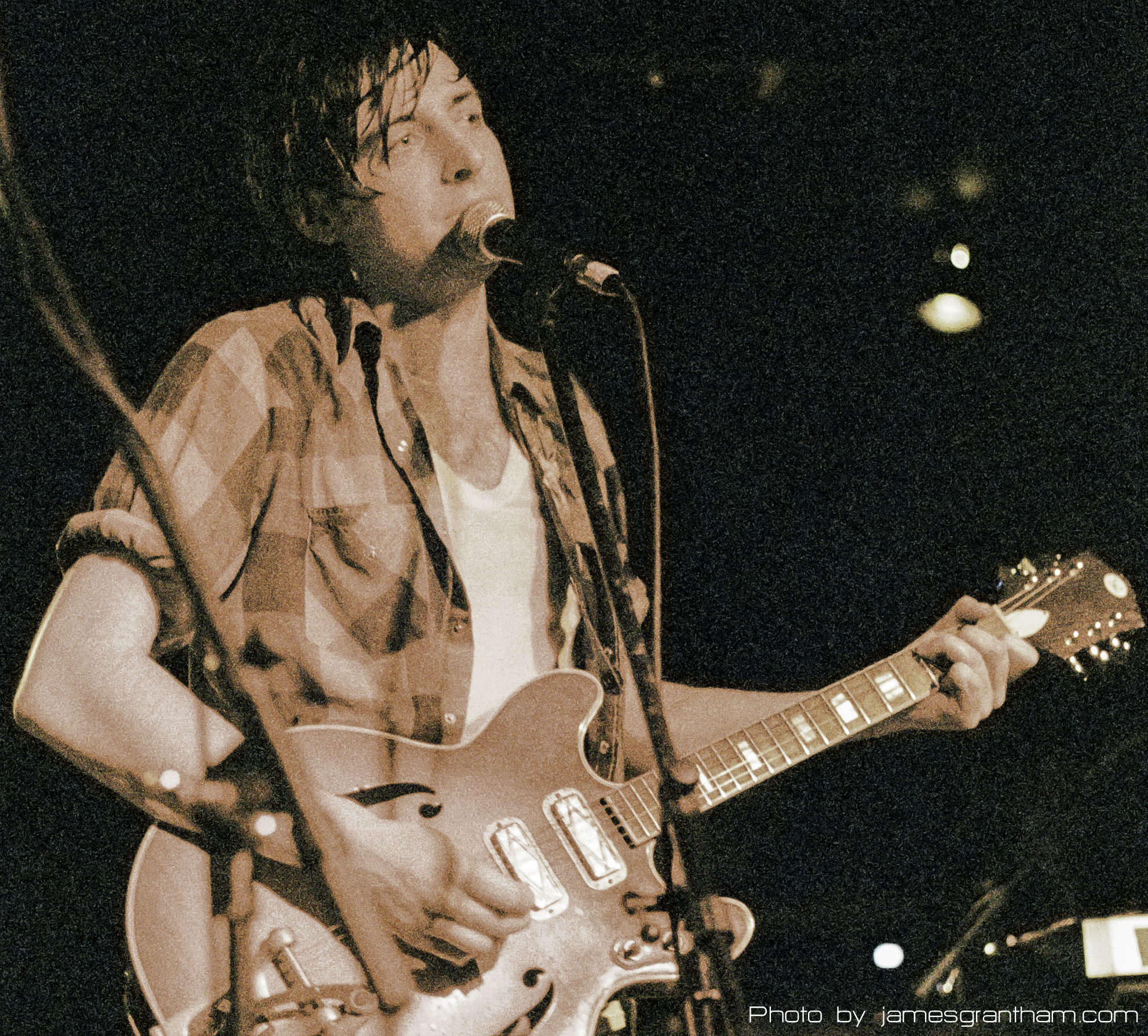 Photo taken by of The Love Language Live Show, 11-16-2012, The Soapbox, Wilmington, NC.